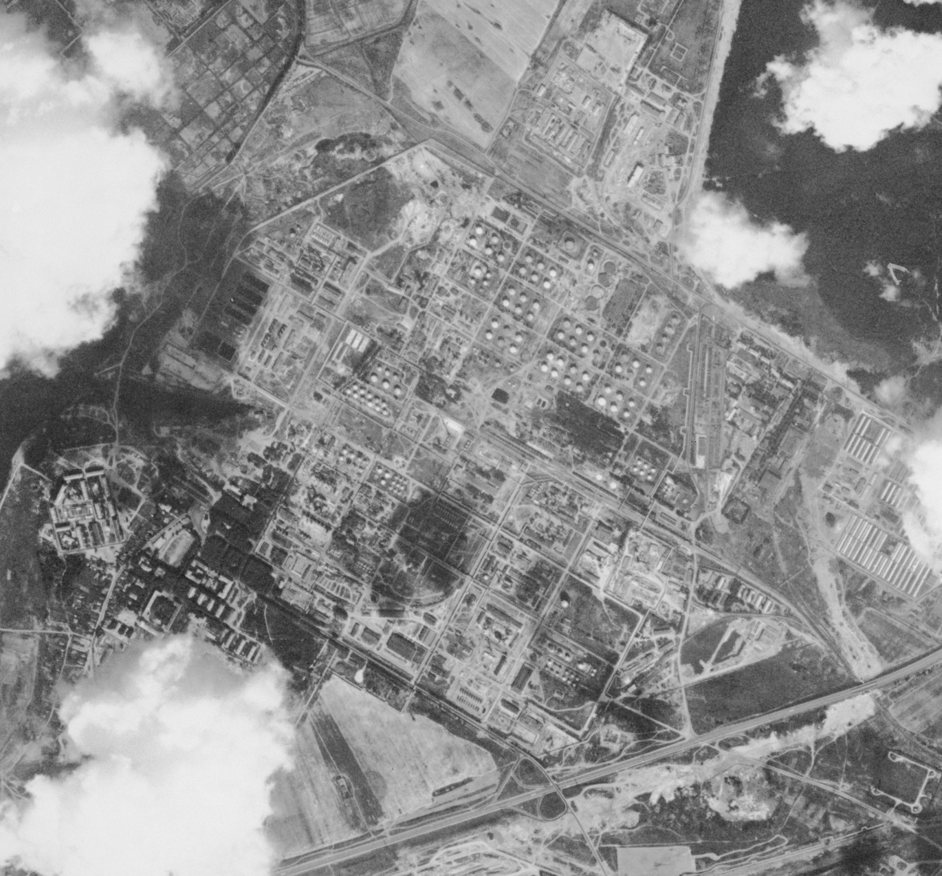 Moscow Oil Refenery. Part of Corona satellite imagery